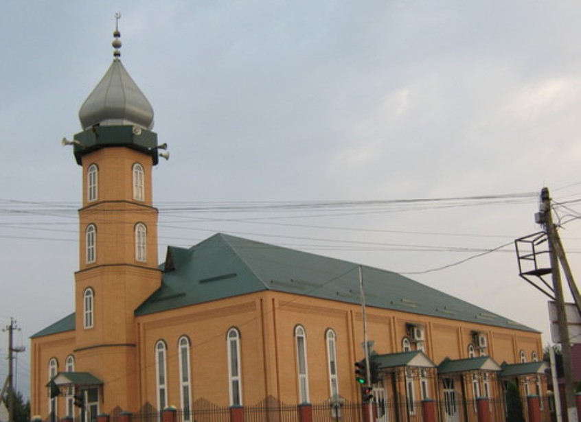 The mosque is located in the village of Germenchuk